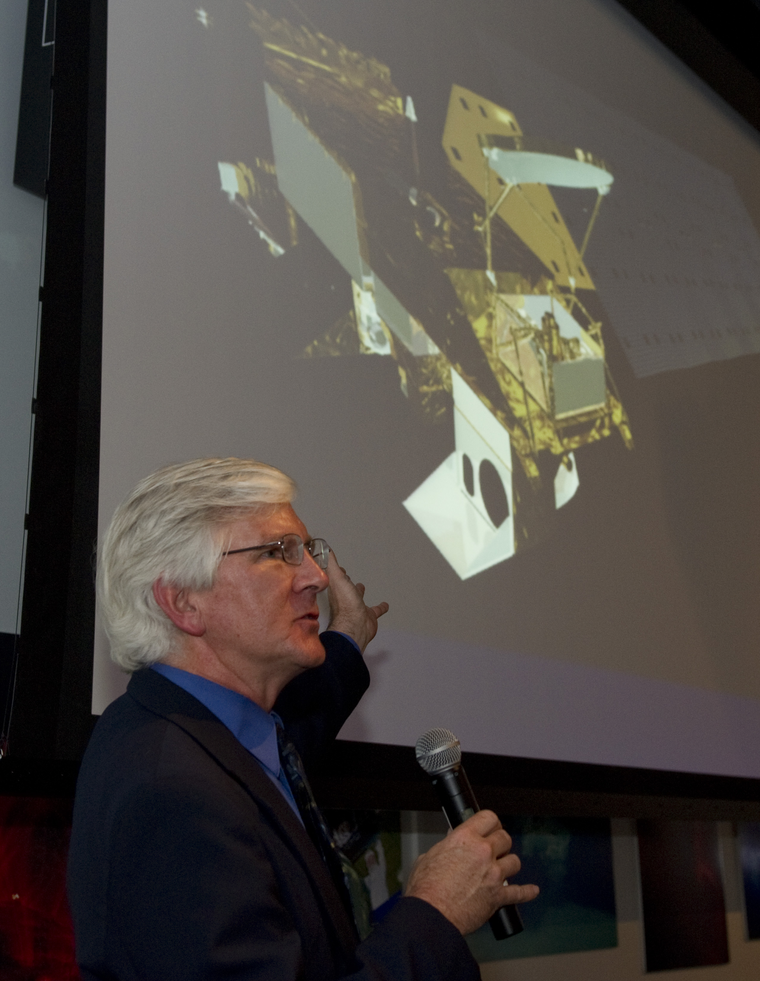 Roy Spencer, AMSR-E Science Team Leader, speaks at the Aqua 10th Anniversary Event on Friday, May 4, 2012 at the NASA Goddard Space Flight Center Visitor Center. Aqua is part of the Earth Observing System and includes the AIRS, AMSR-E, AMSU-A, CERES, HSB and MODIS instruments. The event was sponsored by Northrop Grumman. Credit: NASA/Goddard Space Flight Center/Bill Hrybyk NASA image use policy. NASA Goddard Space Flight Center enables NASA’s mission through four scientific endeavors: Earth Science, Heliophysics, Solar System Exploration, and Astrophysics. Goddard plays a leading role in NASA’s accomplishments by contributing compelling scientific knowledge to advance the Agency’s mission. Follow us on Twitter Like us on Facebook Find us on Instagram